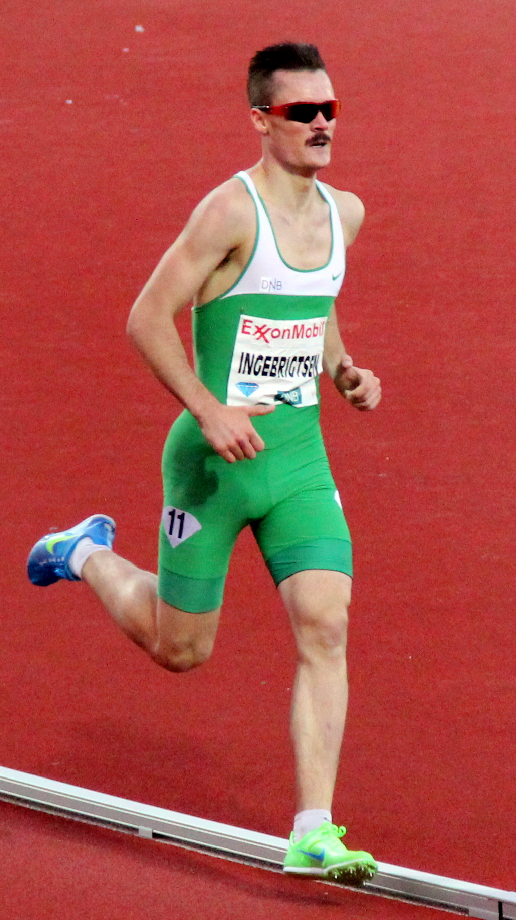 Henrik Ingebrigtsen at the 2012 Bislett Games